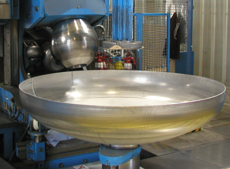 Production machine. Own work, Borowski, 13th July 2006